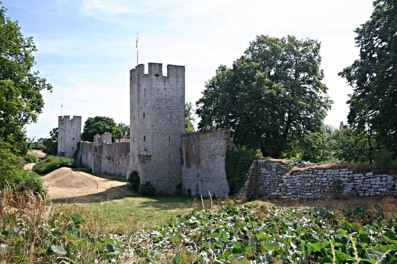 Picture of the wall at the north gate of Visby town on Gotland.